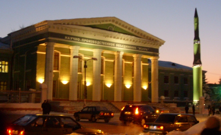 NPO Iskra headquarters